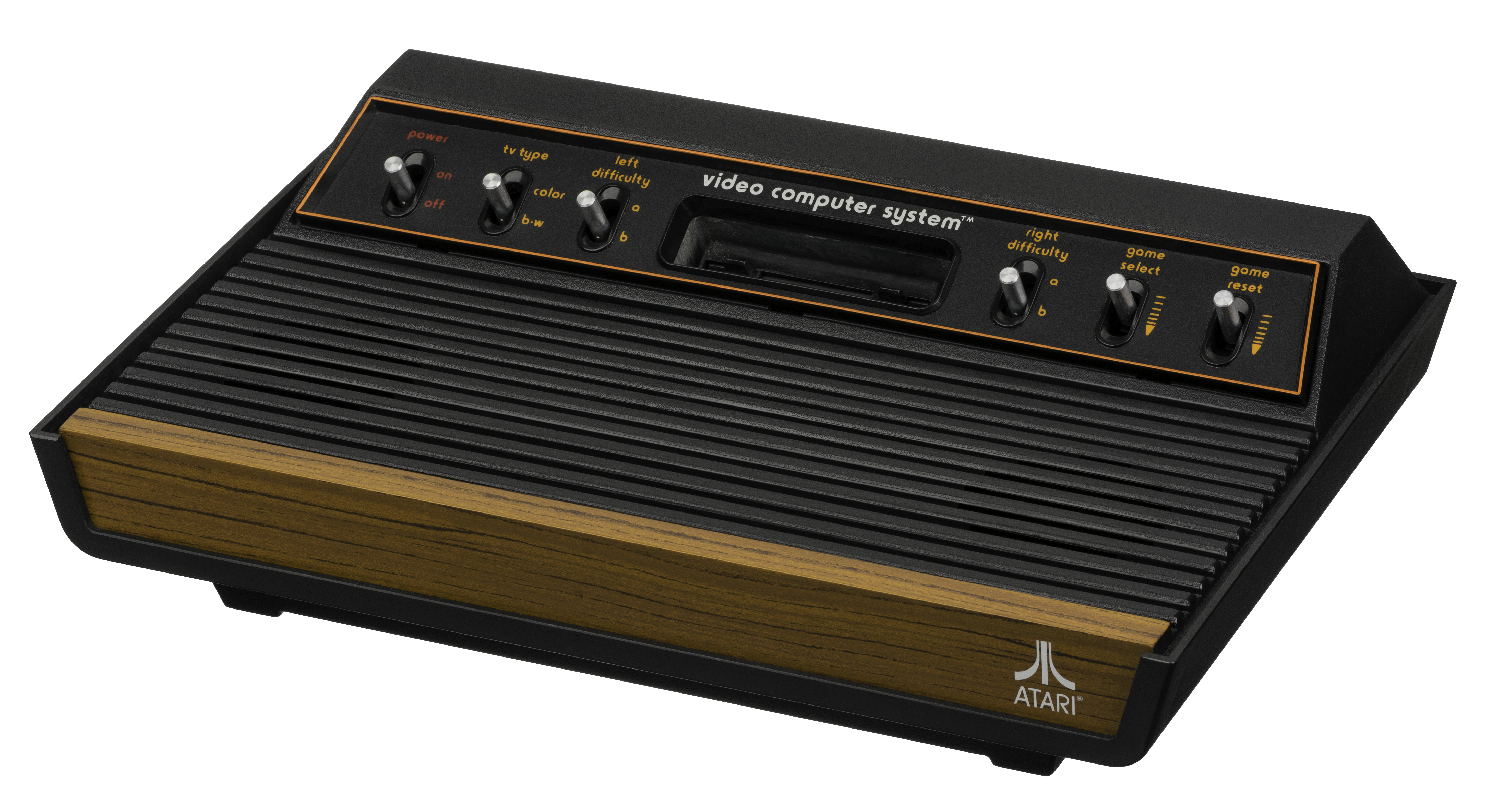 The Atari 2600, a video game console released by Atari in 1977. Originally called the Atari Video Computer System, the system was the most popular gaming console of the late '70s and early '80s. This model is the "Heavy Sixer", which is the very first 2600 model that featured six front switches, and thick plastic & metal RF shielding.